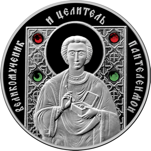 Belarus and the global community. Commemorative Coin "Great Martyr and Healer Panteleimon"